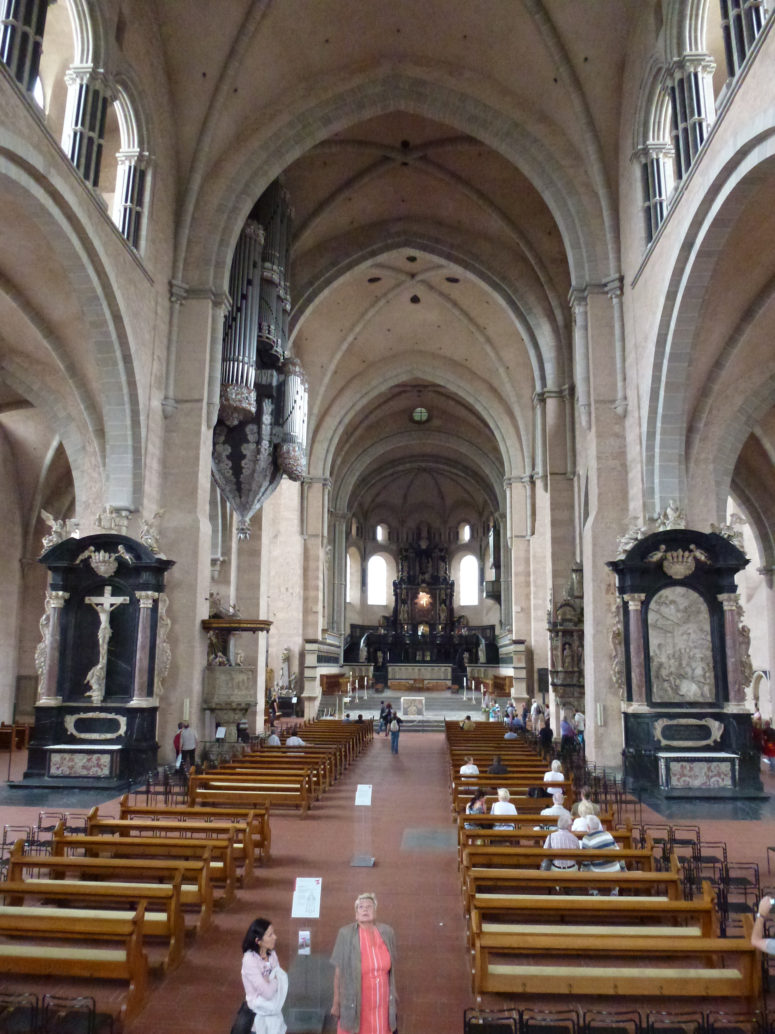 Looking east along the Nave at Saint Peter's Cathedral in Trier